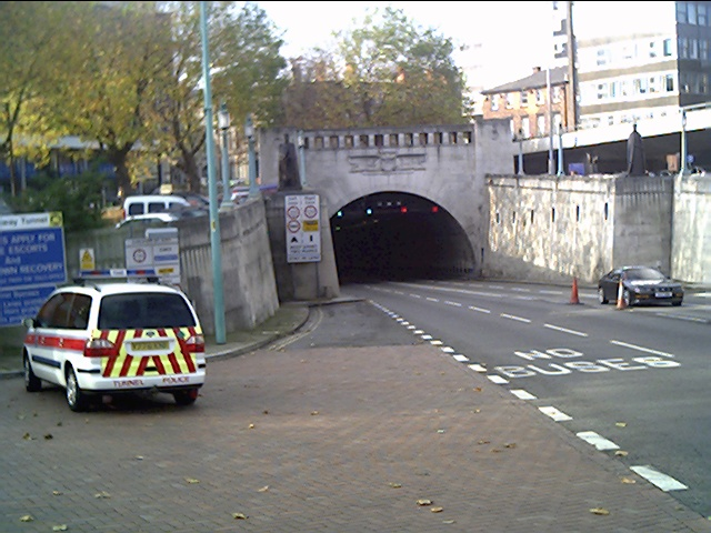 Mersey Tunnel Entrance, Liverpool (Queensway/Birkenhead Tunnel)